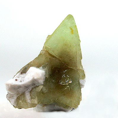 Albite, Genthelvite Locality: Mt. St. Hilaire, Quebec, Canada Size: thumbnail, 2.1 x 1.7 x 1.5 cm Genthelvite on Albite A superb example of this very rare species, from a single pocket collected about 2 years ago that features unusually large, unusually translucent, unusually pretty pastel green crystals. This specimen has one fairly clean repair to the backside of the main crystal, as shown in the lower photo. Hence, it is priced at $250 instead of $1000. Still, it is relatively a bargain and both displays well and hosts a major crystal for the species.